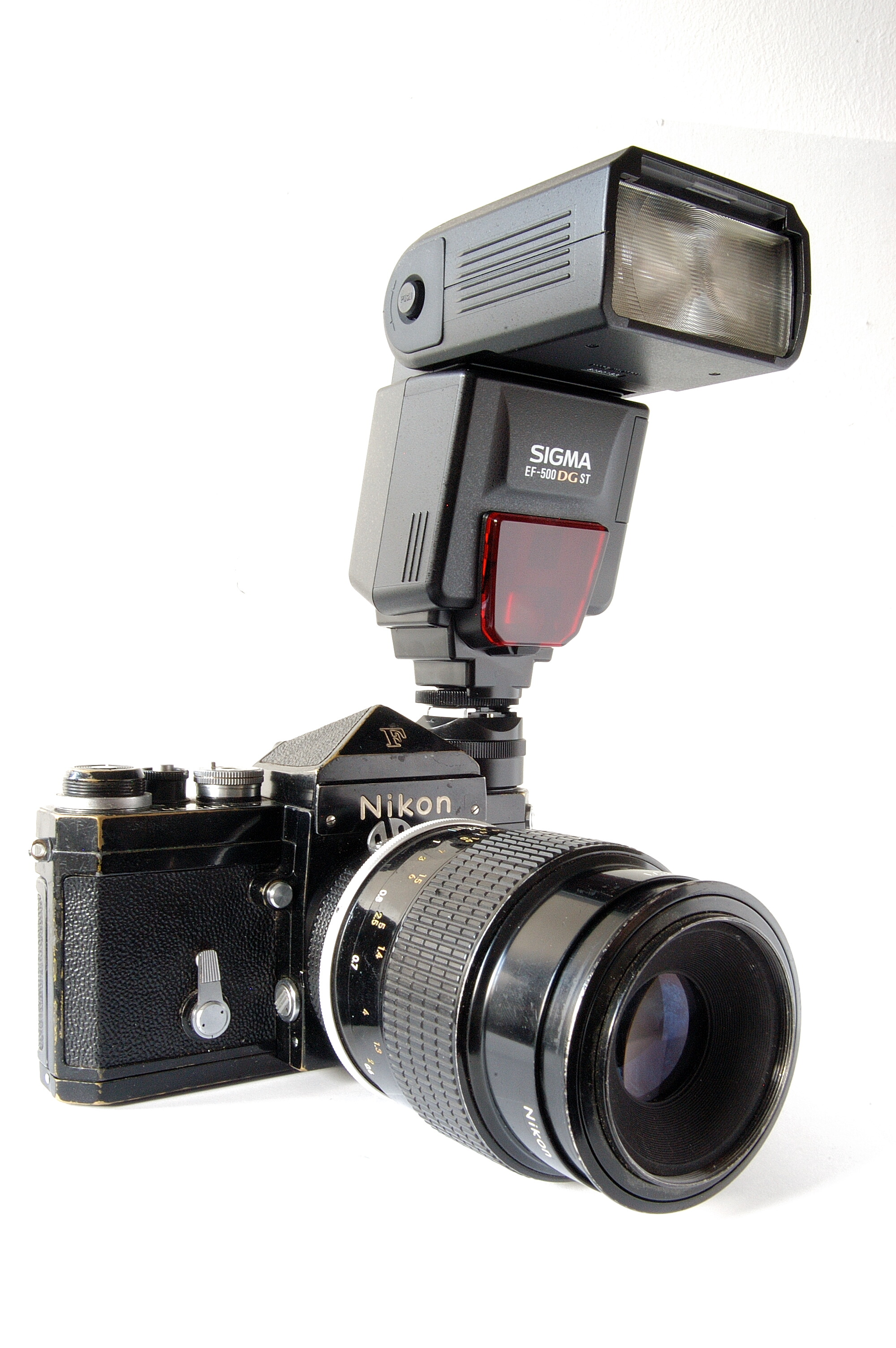 Nikon F with Micro-Nikkor 105 mm 1:4 and flash Sigma EF-500 DG ST